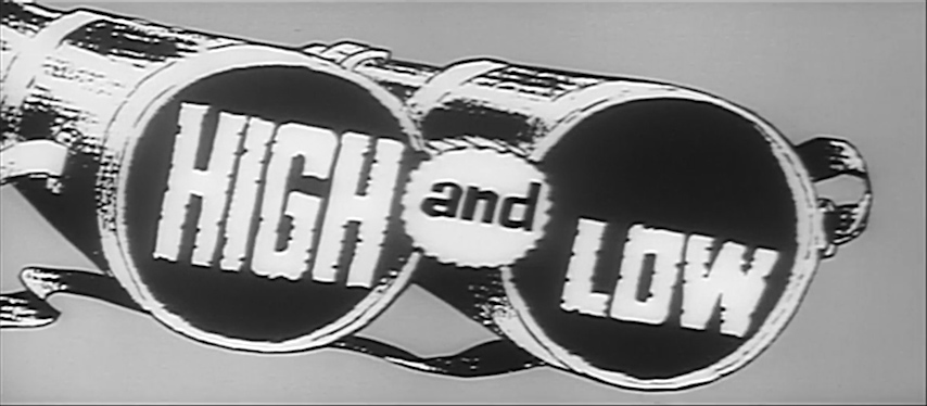 Screenshot of the US trailer of the film High and Low.